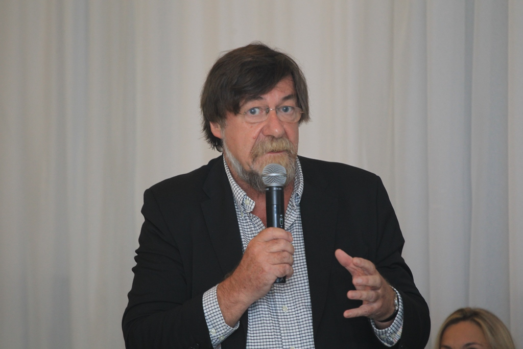 Preventing World War Through Global Solidarity: 100 Years On